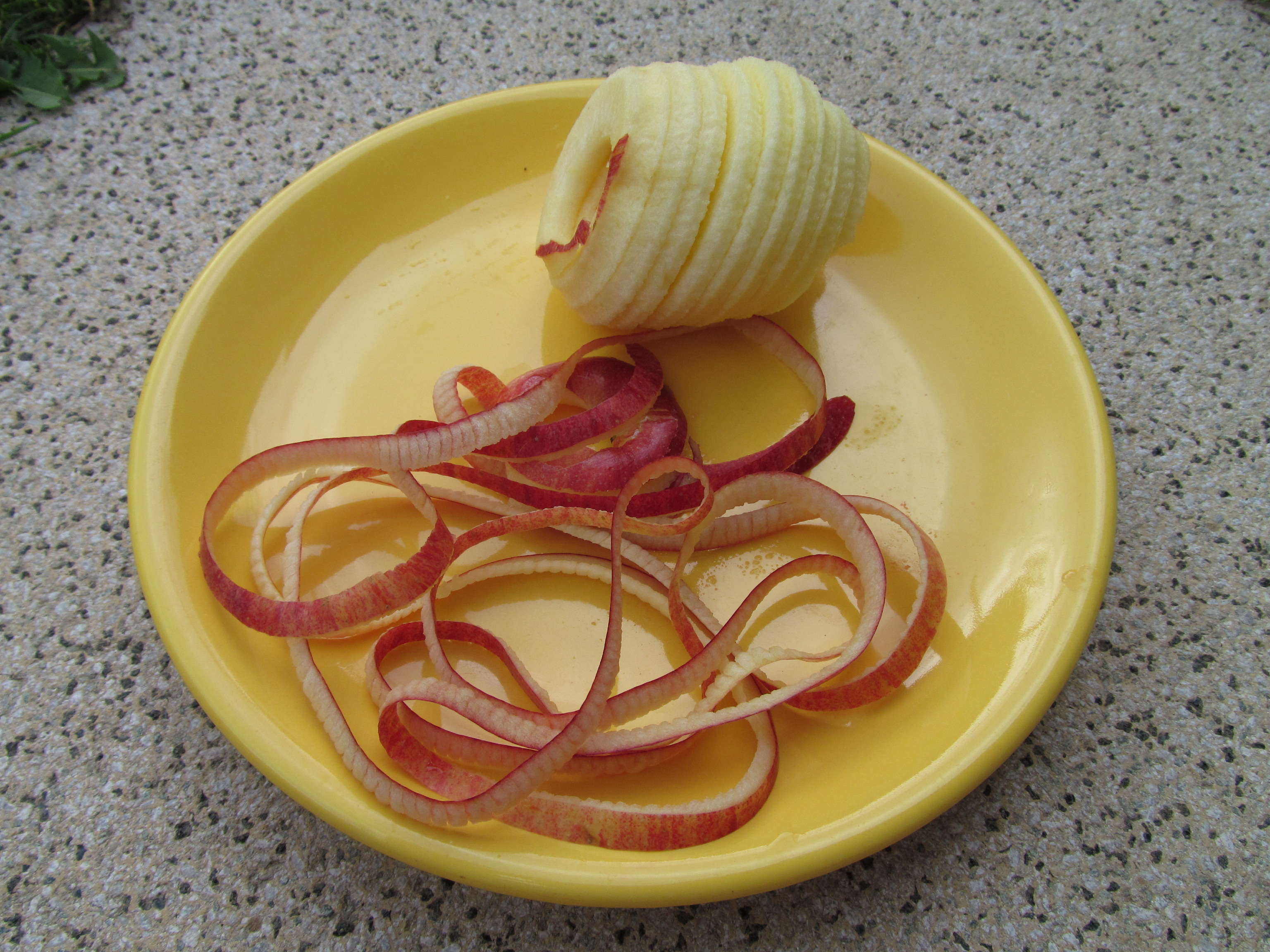 Peeled Apple